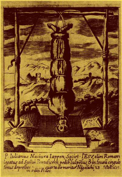 Torture of Julian Nakaura, a nobleman who had been a member of the Tenshō embassy to Europe. Nakaura was tortured together with Cristóvão Ferreira